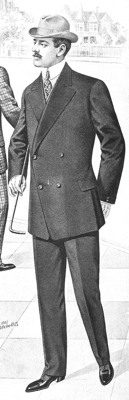 An unusual cut-away double breasted jacket.